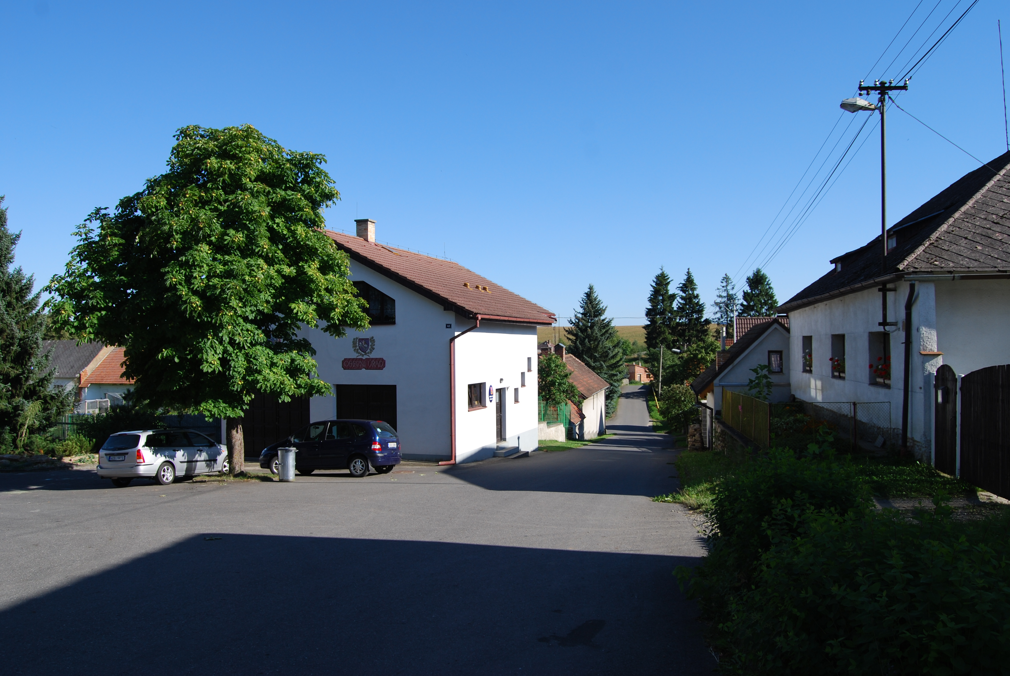 Stehlovice village in Pisek District, Czech Republic. Village office